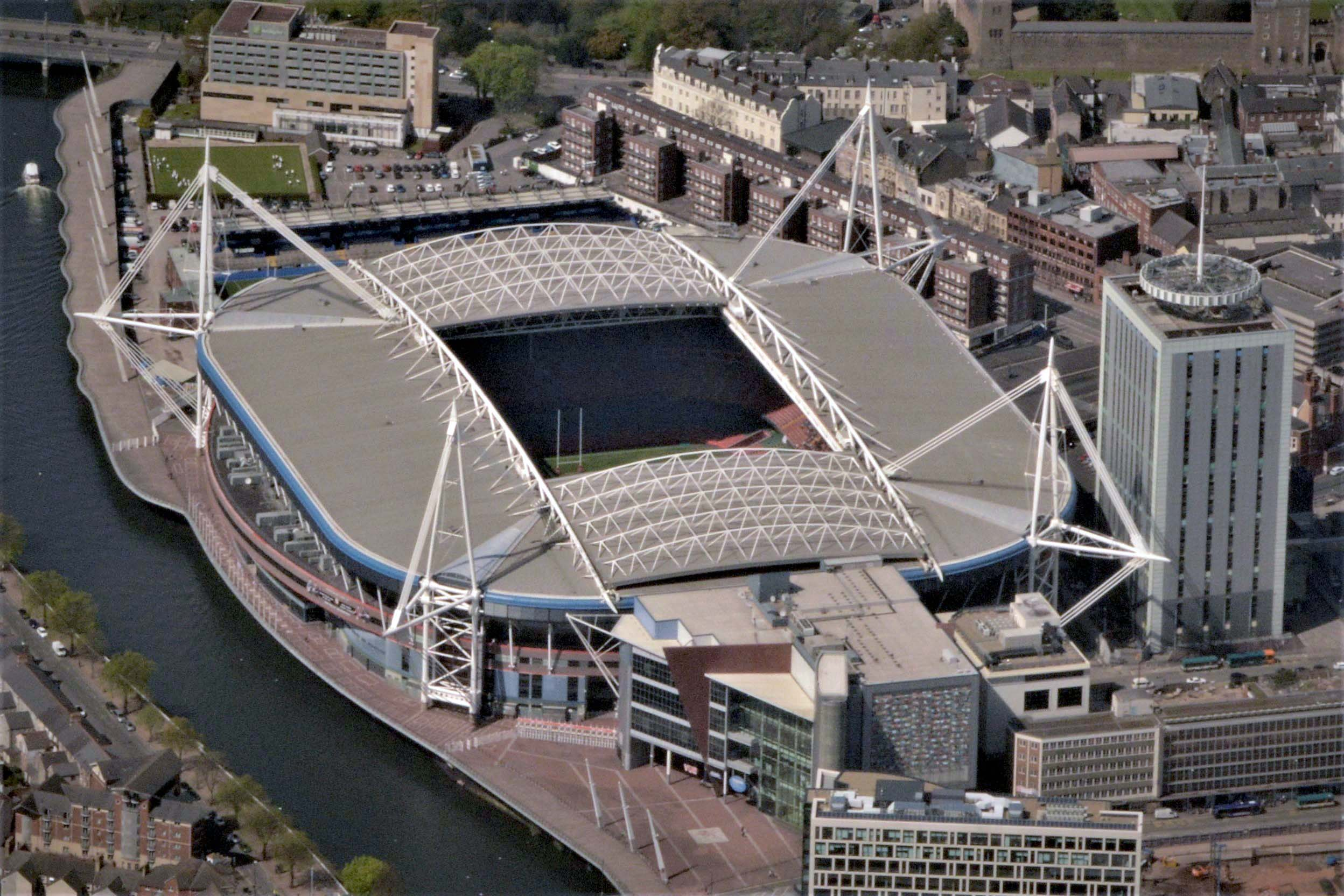 Millennium Stadium & Cardiff Central - TROML - 1350